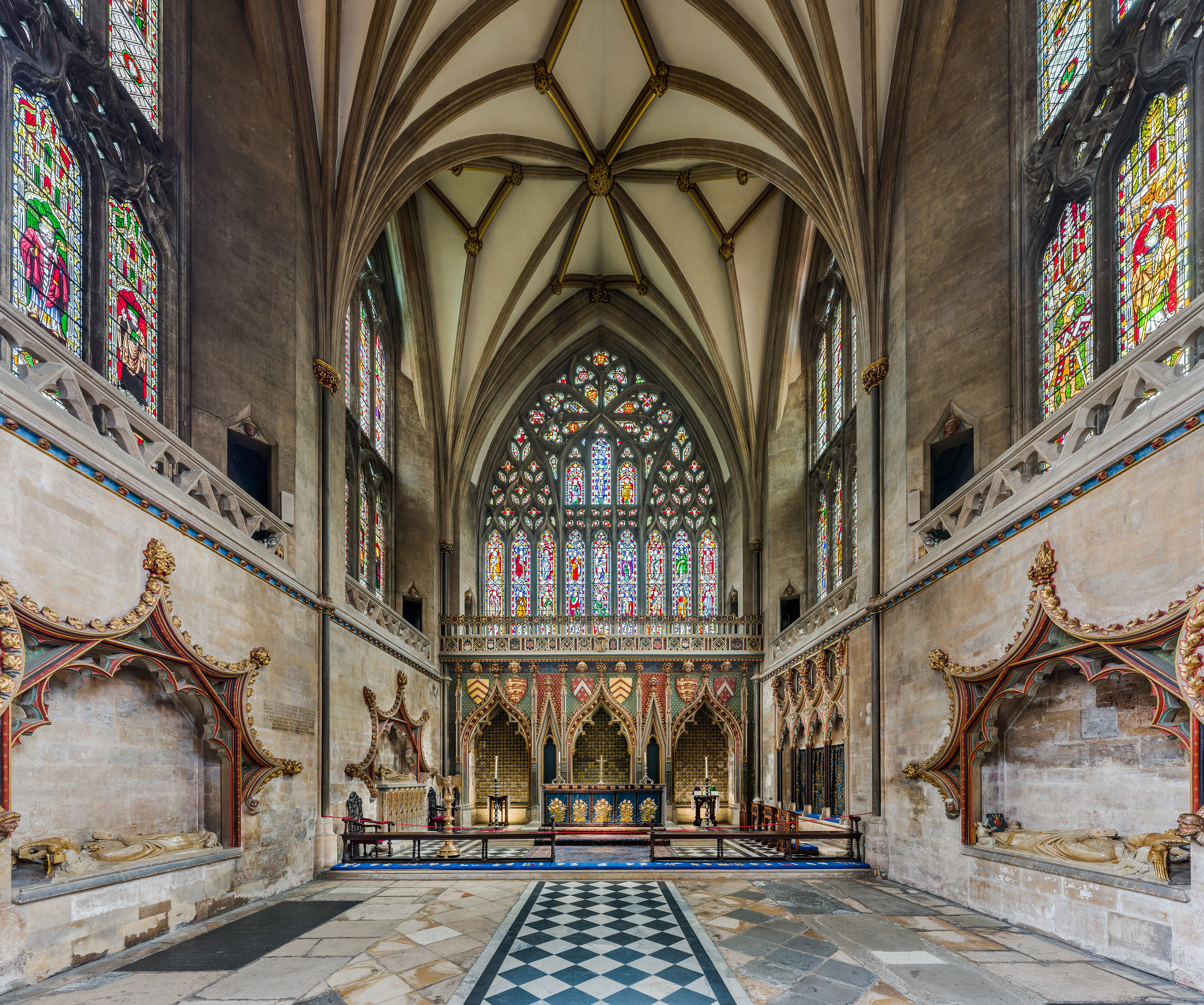 The Lady Chapel of Bristol Cathedral in Bristol, England. Arms of Berkeley, De Clare and the royal arms of England.